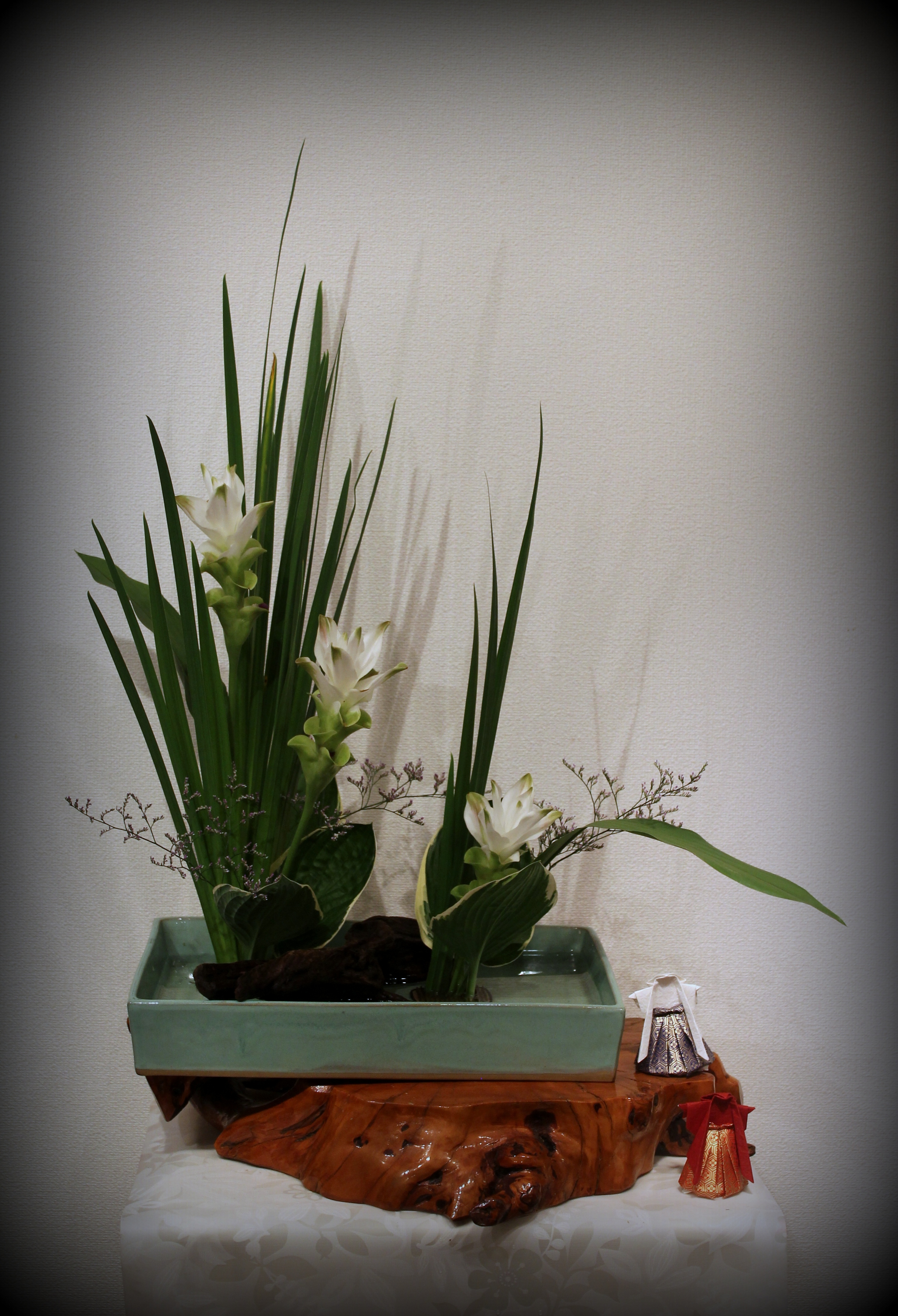 2. Moribana Kansuike, created by Ric Bansho Carrasco in 2014 during a demonstration held in Art Laksy in Tokyo, Japan.